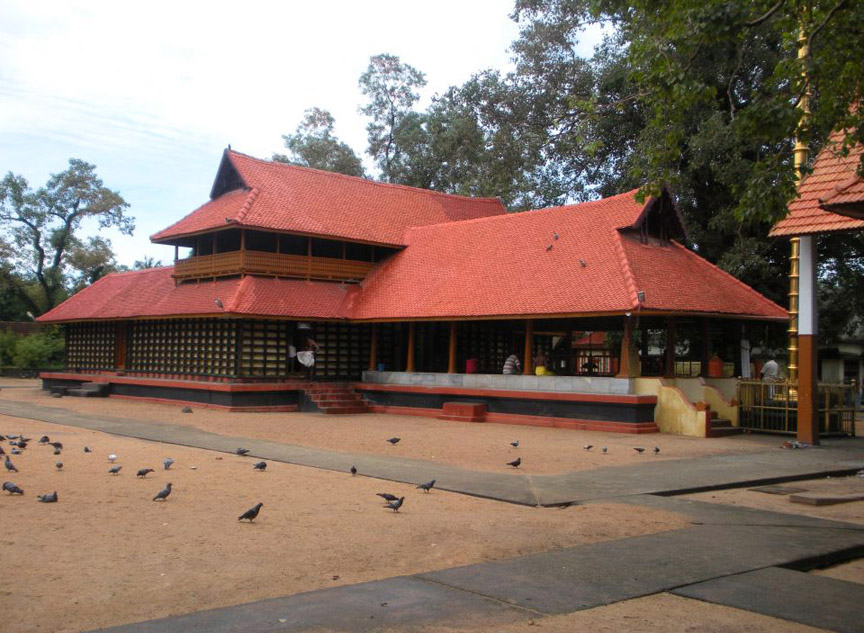 Mullakkal Devi temple